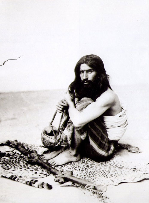 Darvish. One of Antoin Sevruguin's historical Iran photographs.